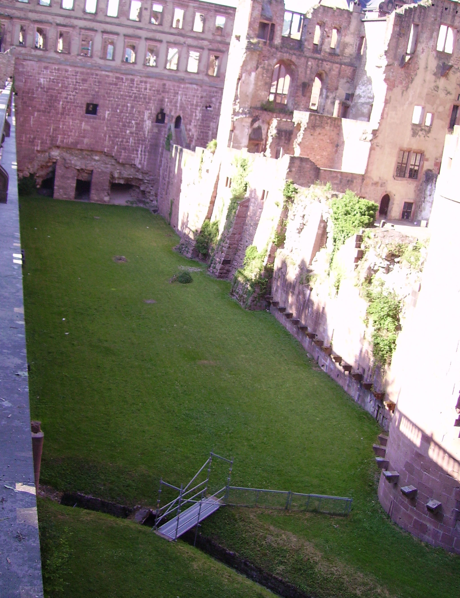 part of Heidelberg castle (Heidelberger Schloss)